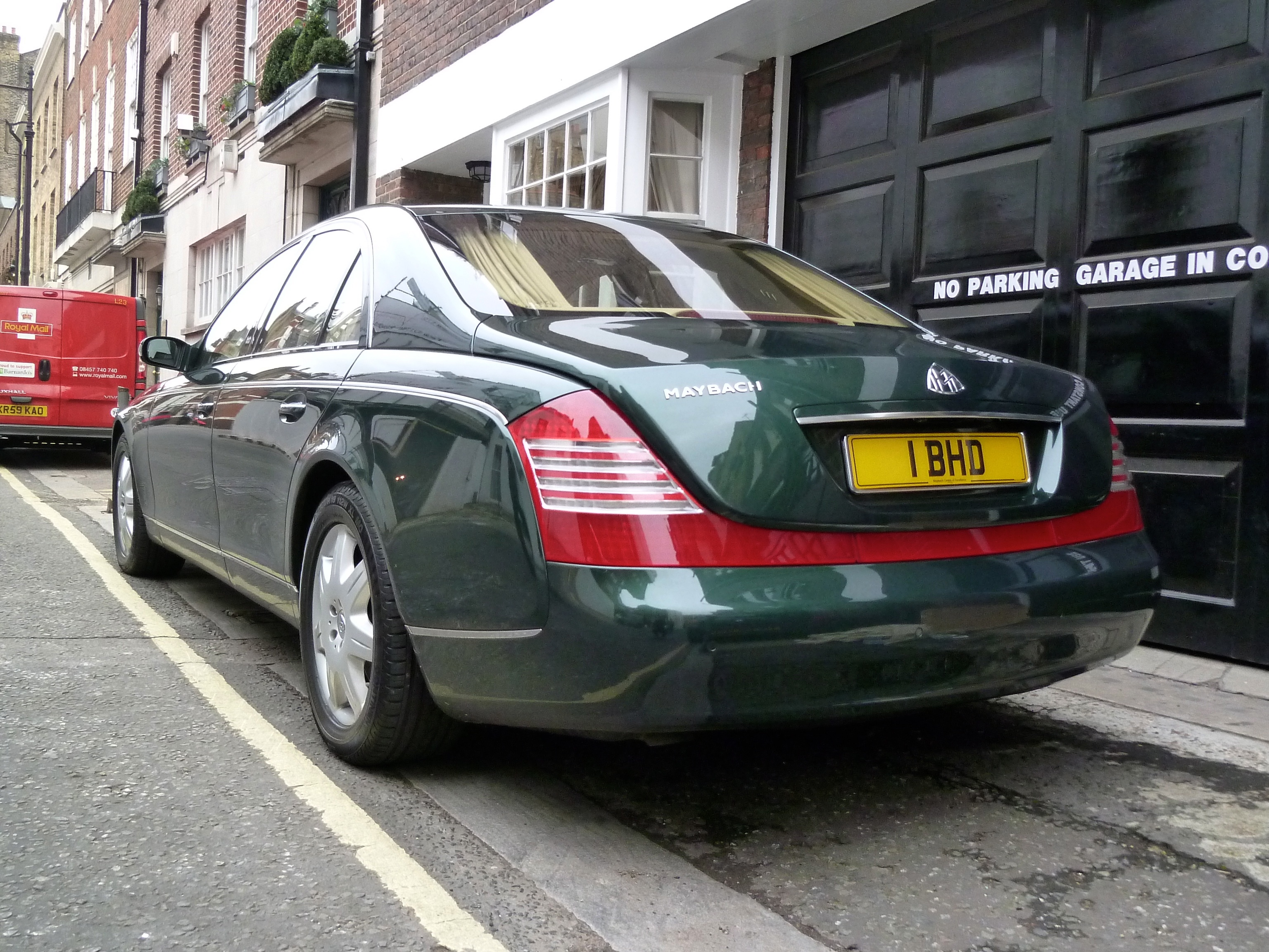 Maybach Green